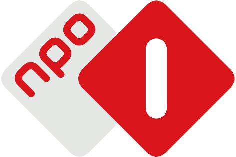 Futur logo officiel de NPO 1 à partir de septembre 2014[1]Toekomstige logo van NPO 1 vanaf september 2014[2]Official logo of NPO 1 from September 2014.